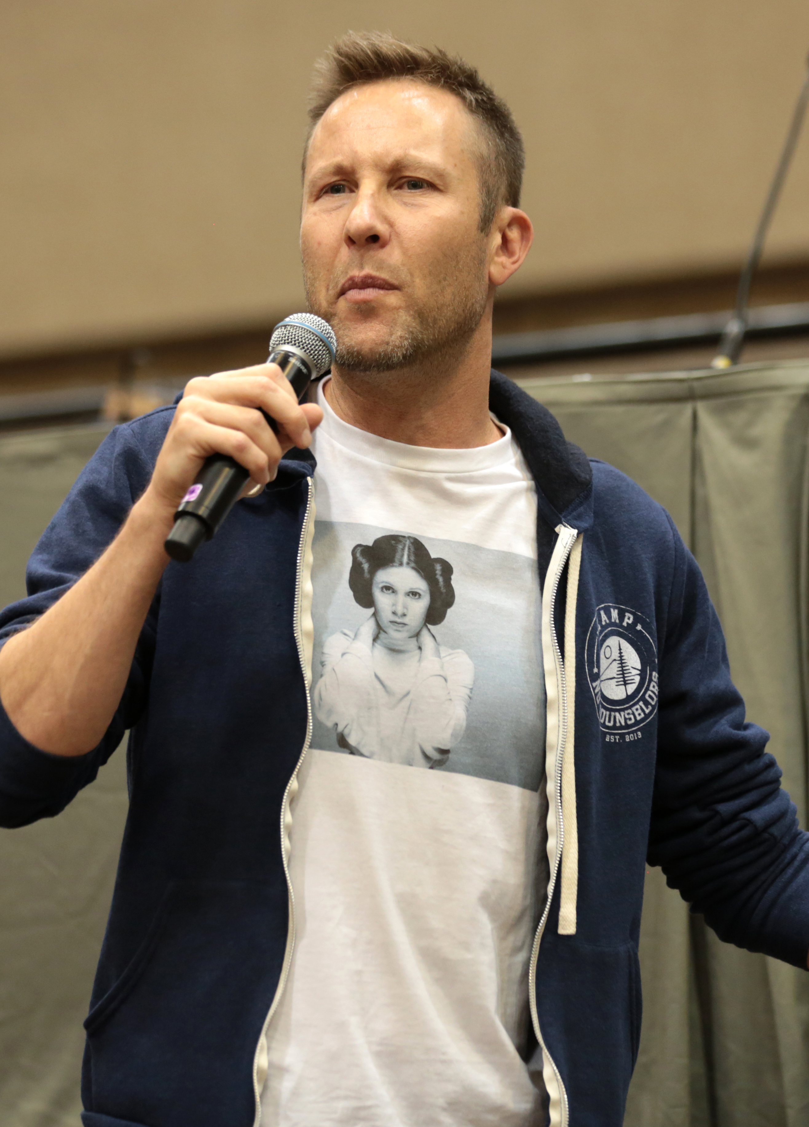 Michael Rosenbaum speaking at the 2017 Phoenix Comicon in Phoenix, Arizona.